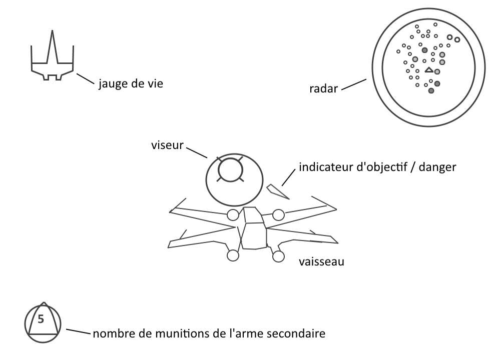 Star Wars Rogue Squadron Interface (French)